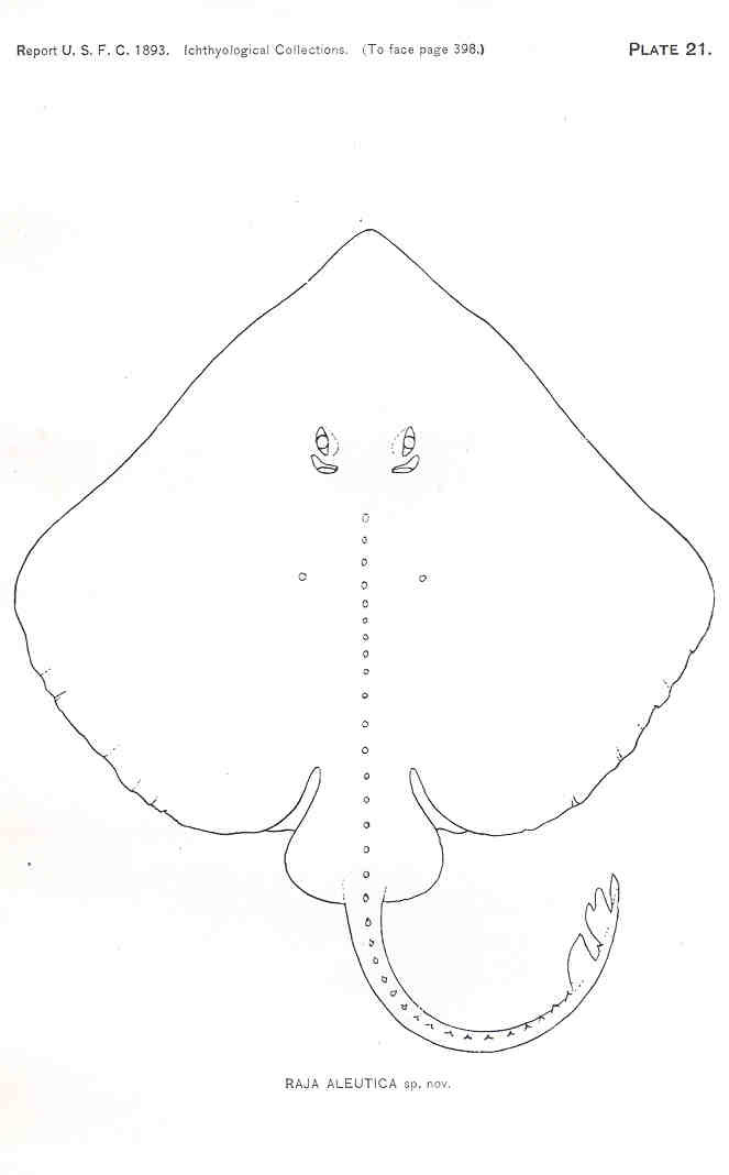 Raja Aleutica sp.nov . Subject: Rays (Fishes) Tag: Fish